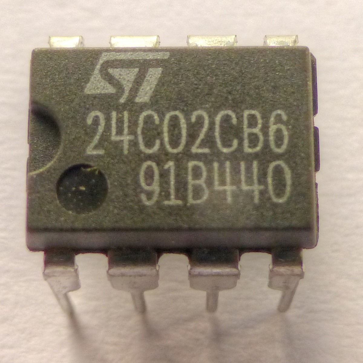 AT24C02 EEPROM